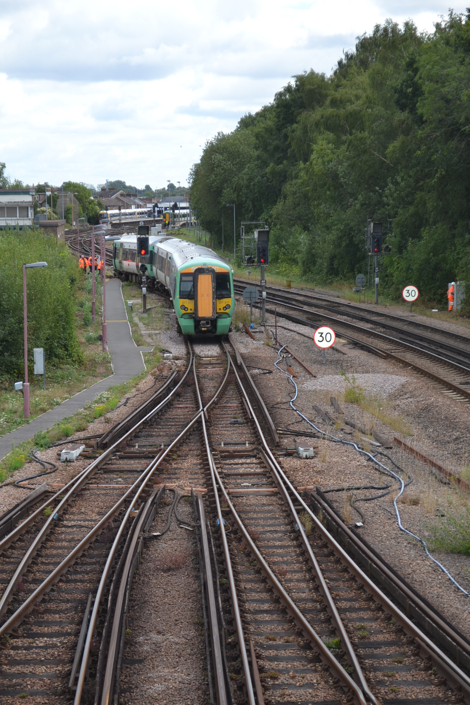 Class 377 electric multiple unit derailed at the exit of the Jubilee Sidings, Tonbridge, Kent.